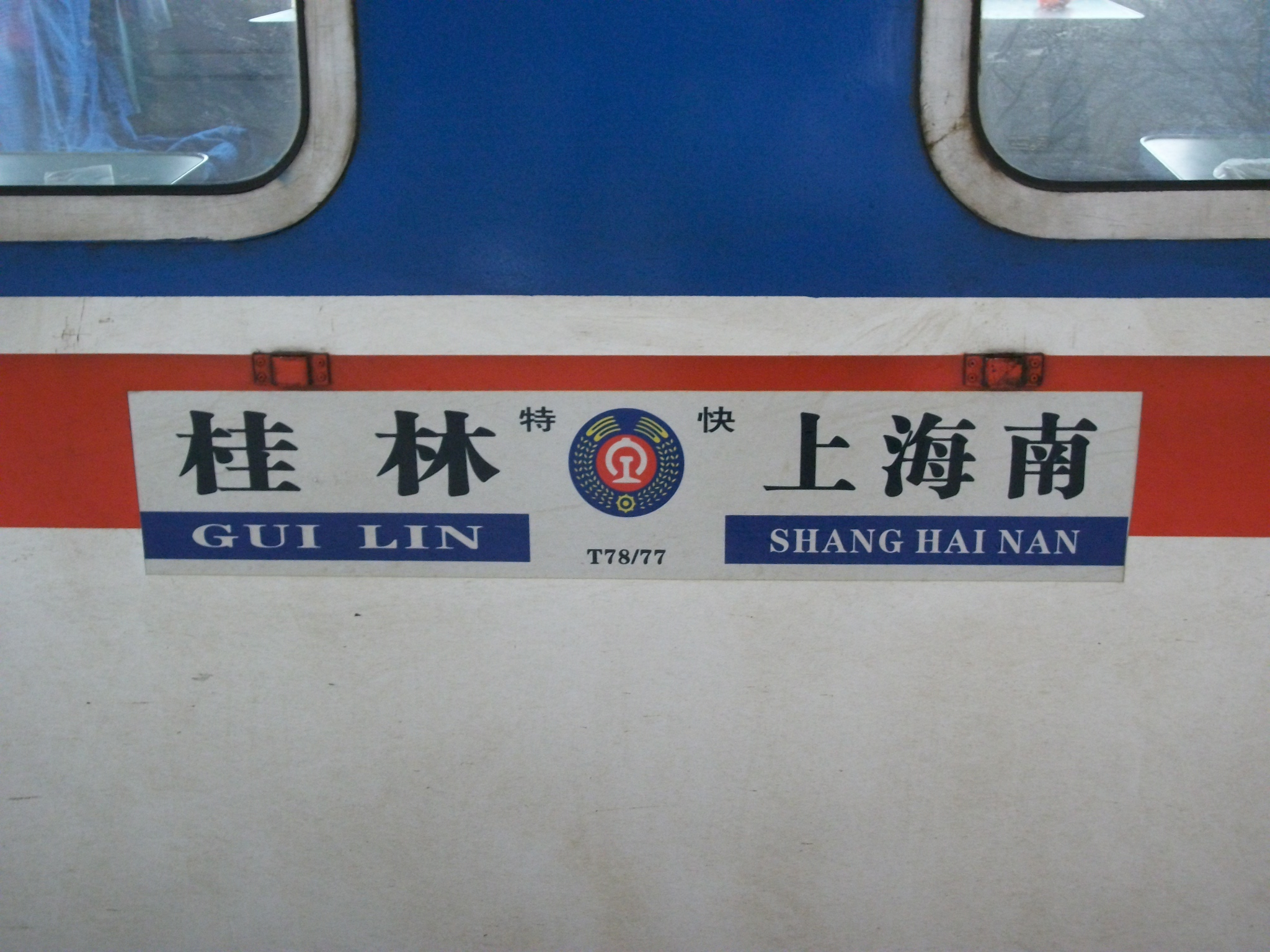 An information board of the train T77/78.